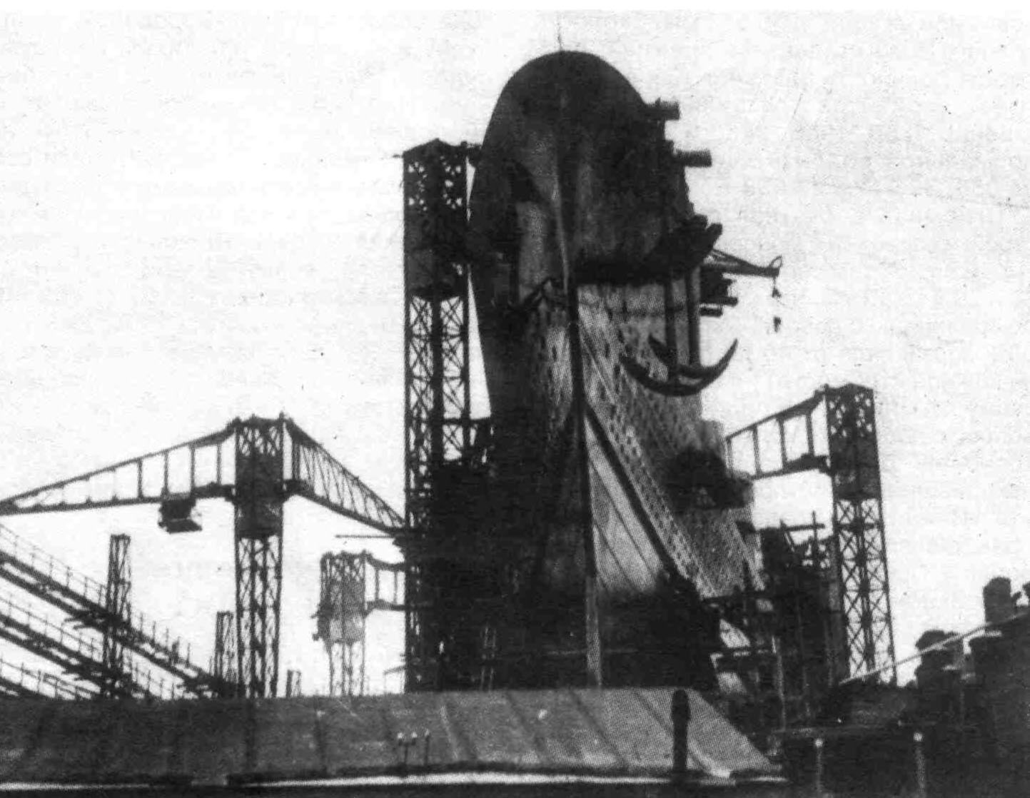 Battlecruiser Kinburn at Baltic factory in Petrograd.